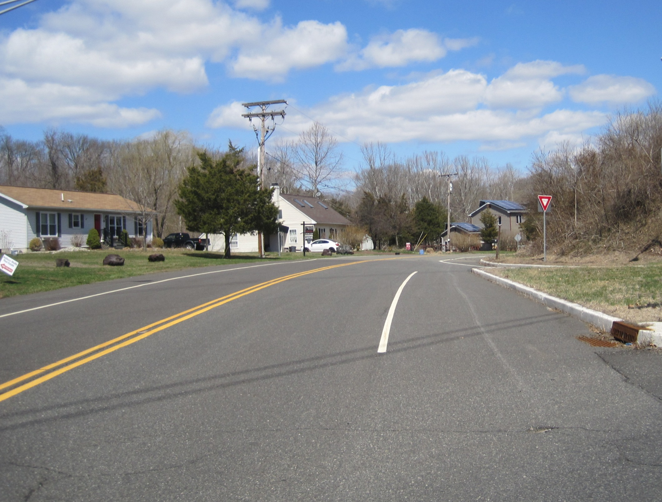 Photo of a portion of the unincorporated community of Alexauken, New Jersey, located in West Amwell Township and Lambertville. Photo taken along eastbound Alexauken Creek Road at the US 202 interchange.